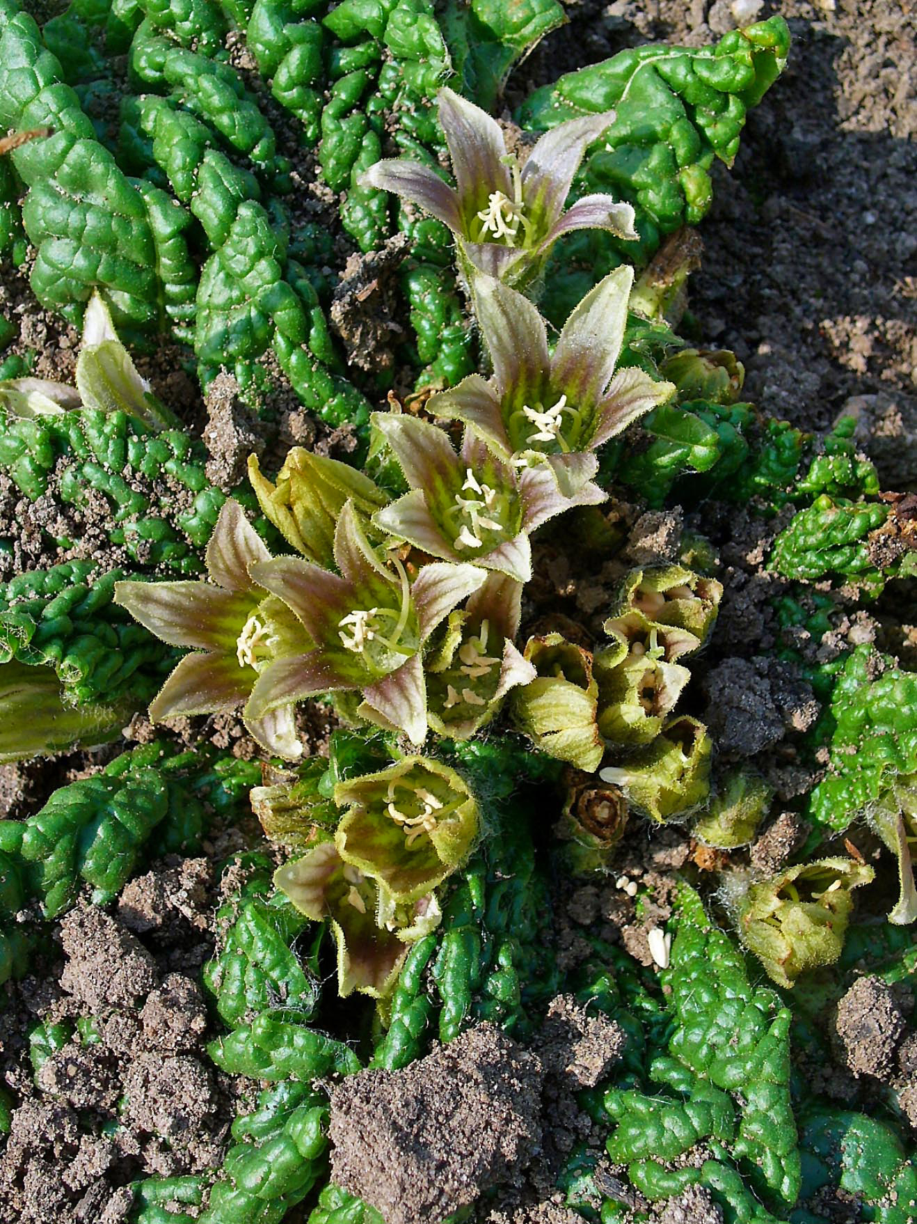 Mandragora officinarum, Common Mandrake, flowers.